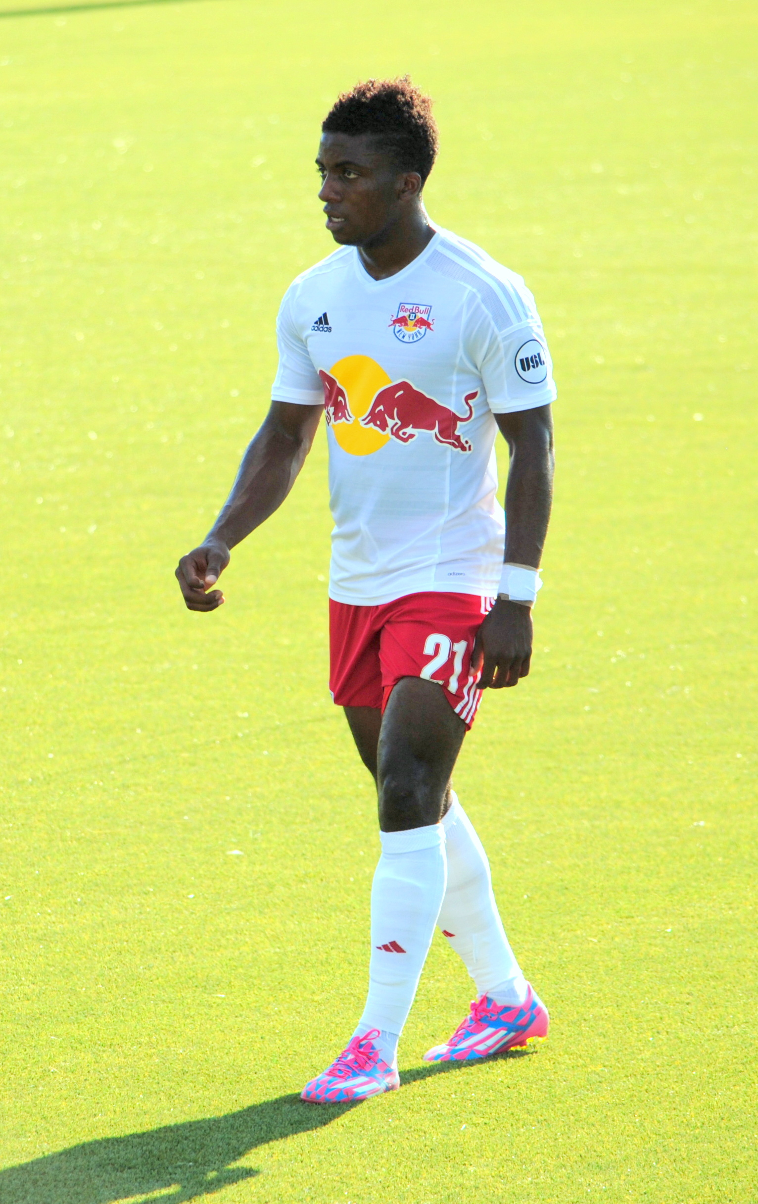 Obekop RBNY II